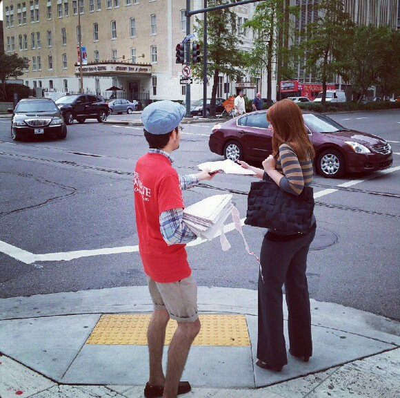 Poydras Street, New Orleans Central Business District. With the Times-Picayune stopping daily publication, the Baton Rouge based "Advocate" has started a daily New Orleans edition. Man hands out free sample issues. A picture from my phone on Instagram.